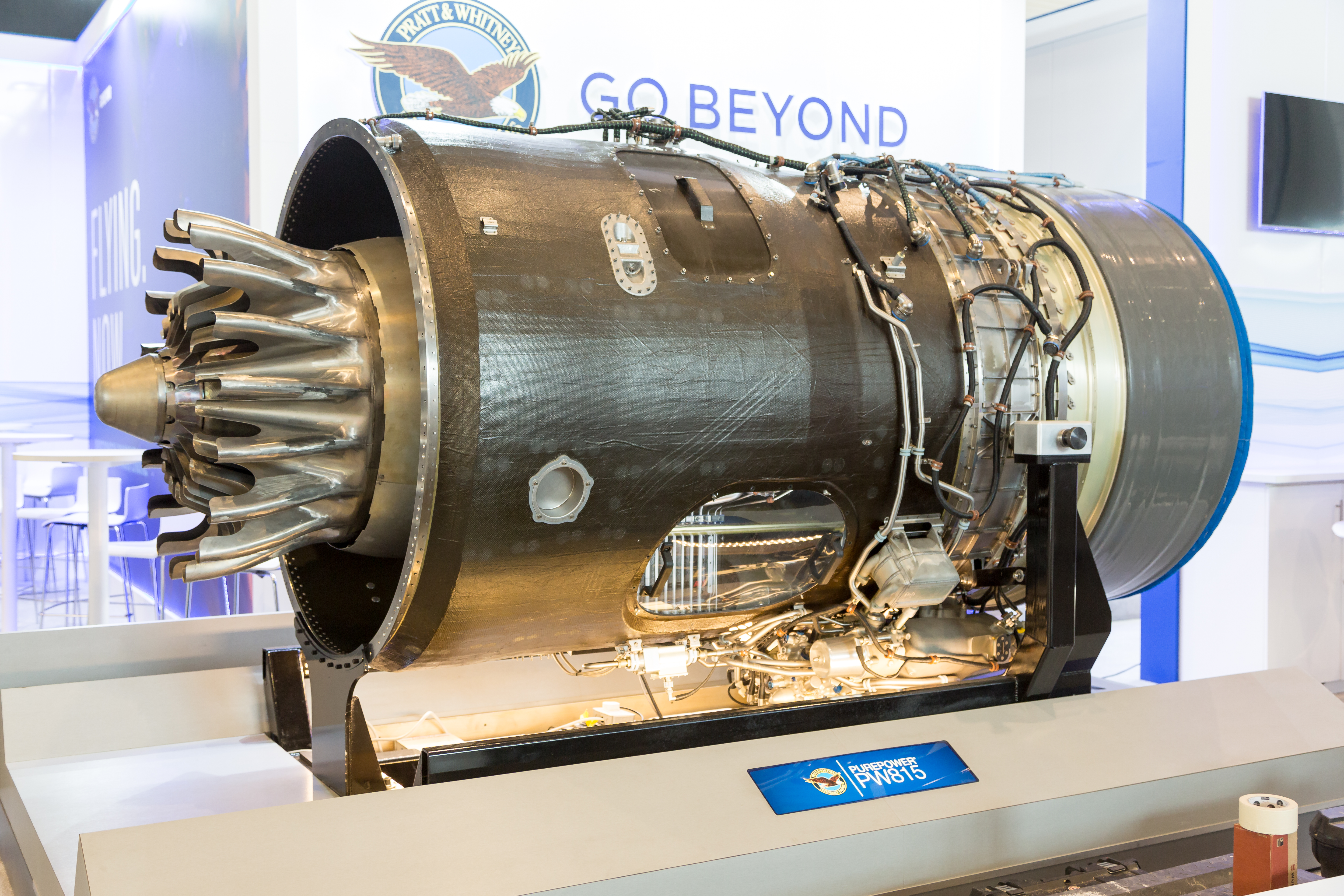 A Pratt & Whitney Canada PW815 engine, on display at EBACE 2018, in Le Grand-Saconnex